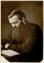 Picture of William Kingdon Clifford, the mathematician